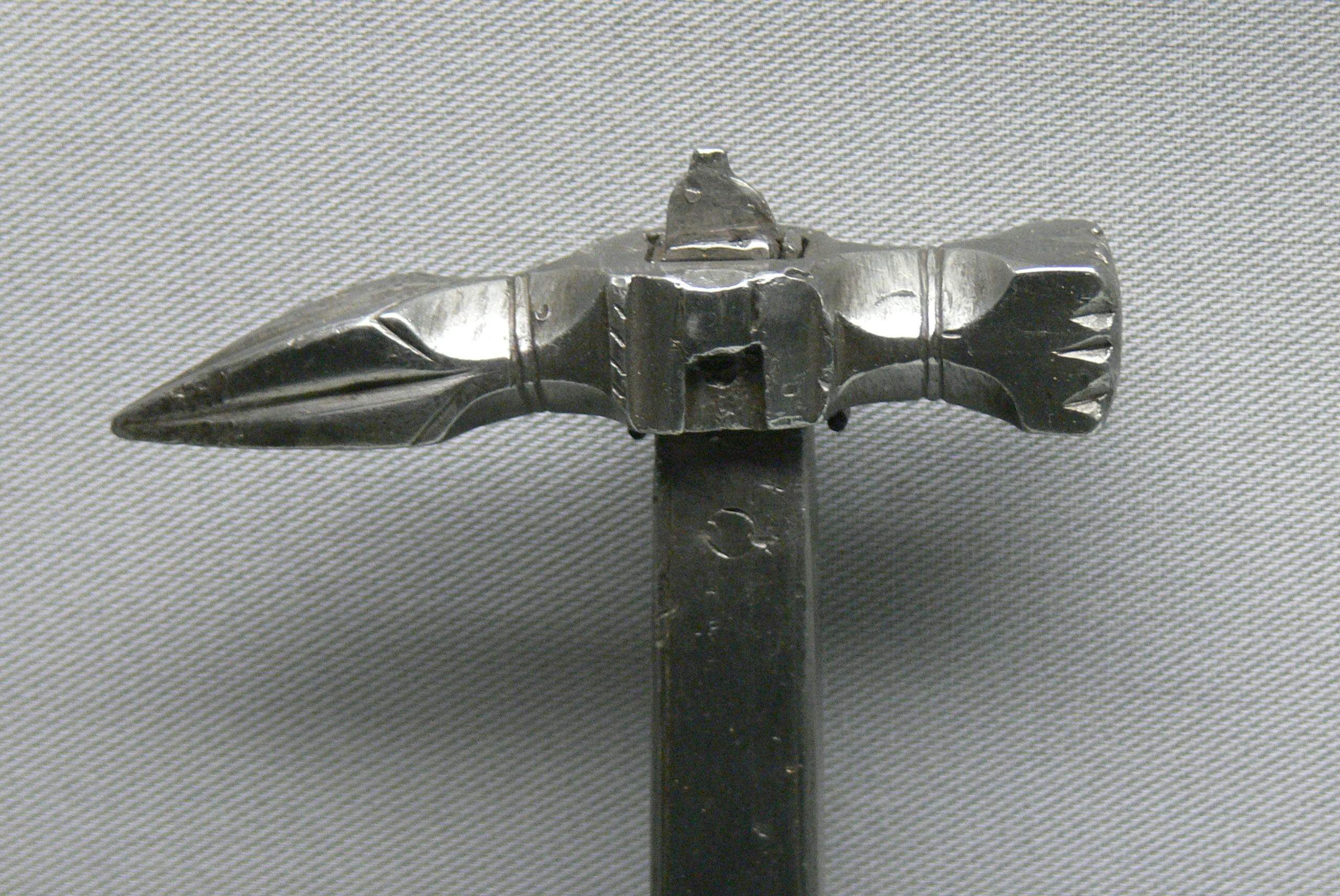 Oberhausmuseum ( Passau ). War hammer ( 16th century ).